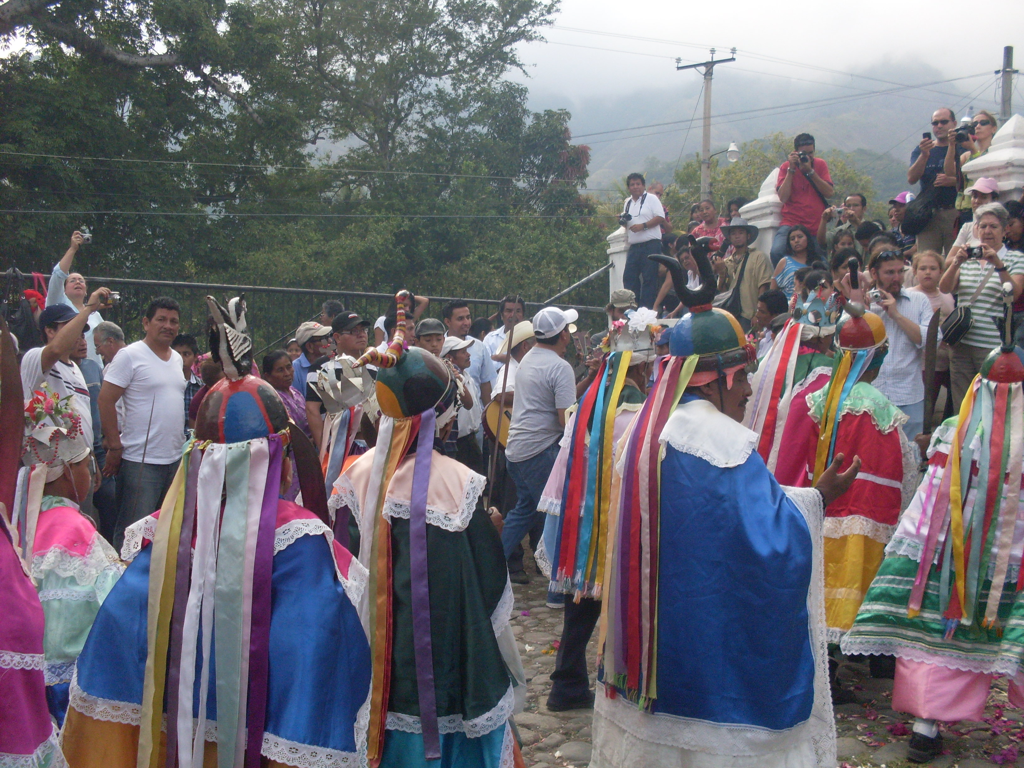 Representation of the Traditional dance of The Historiantes